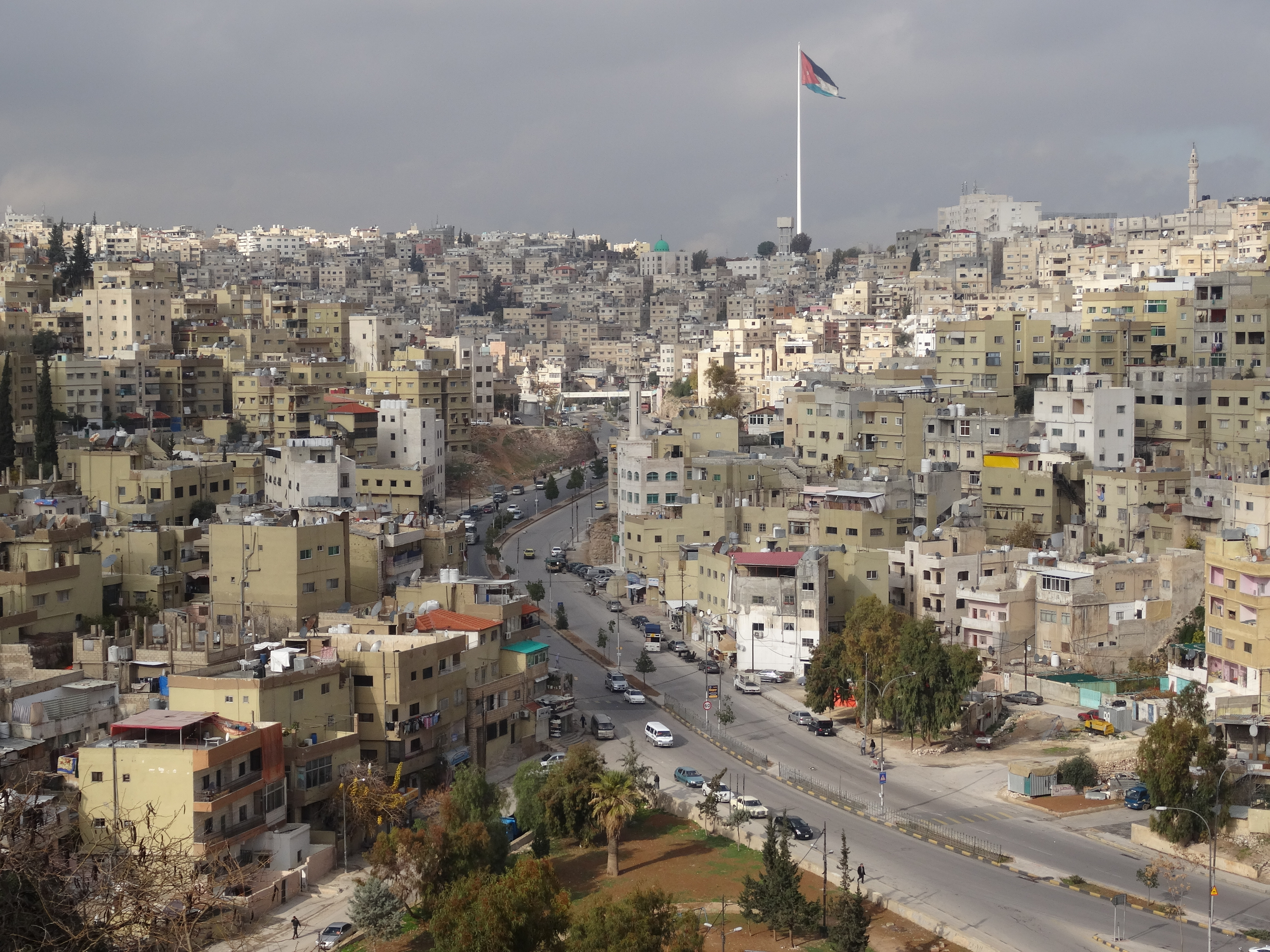 Amman